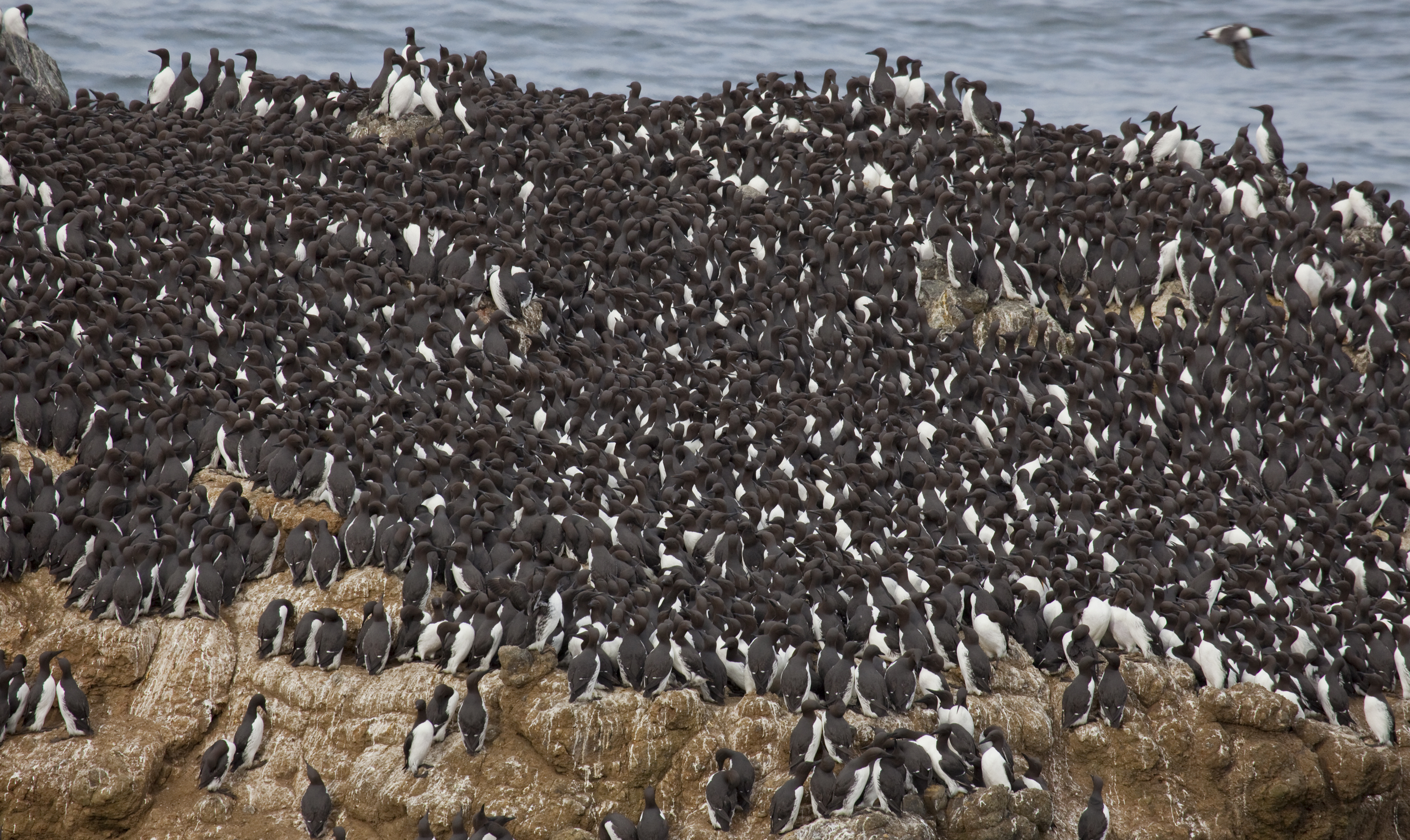 Oregon Islands National Wildlife Refuge, OR Nesting colony on Colony Rock at Yaquina Head Photo: Roy W. Lowe/USFWS